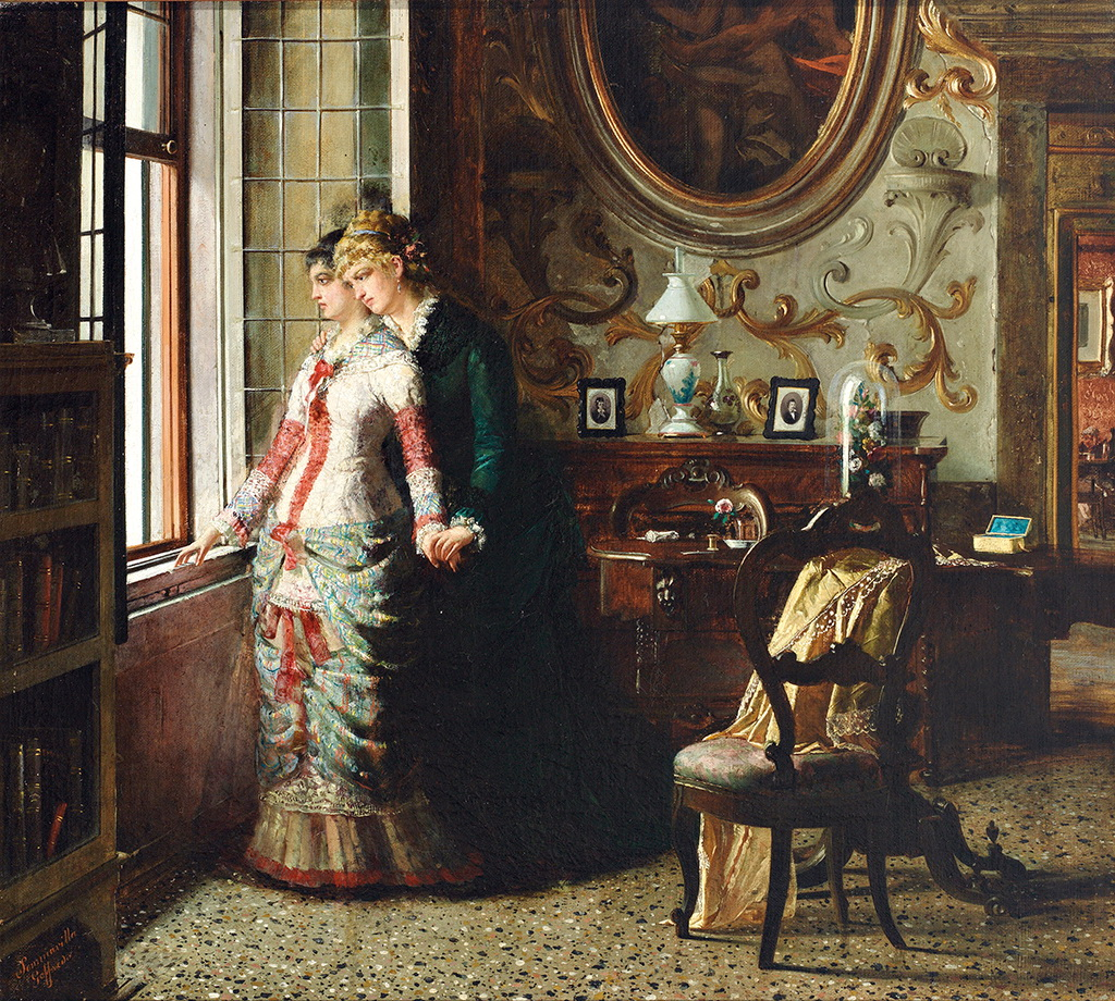 Two young women looking longingly out the window (Longing)